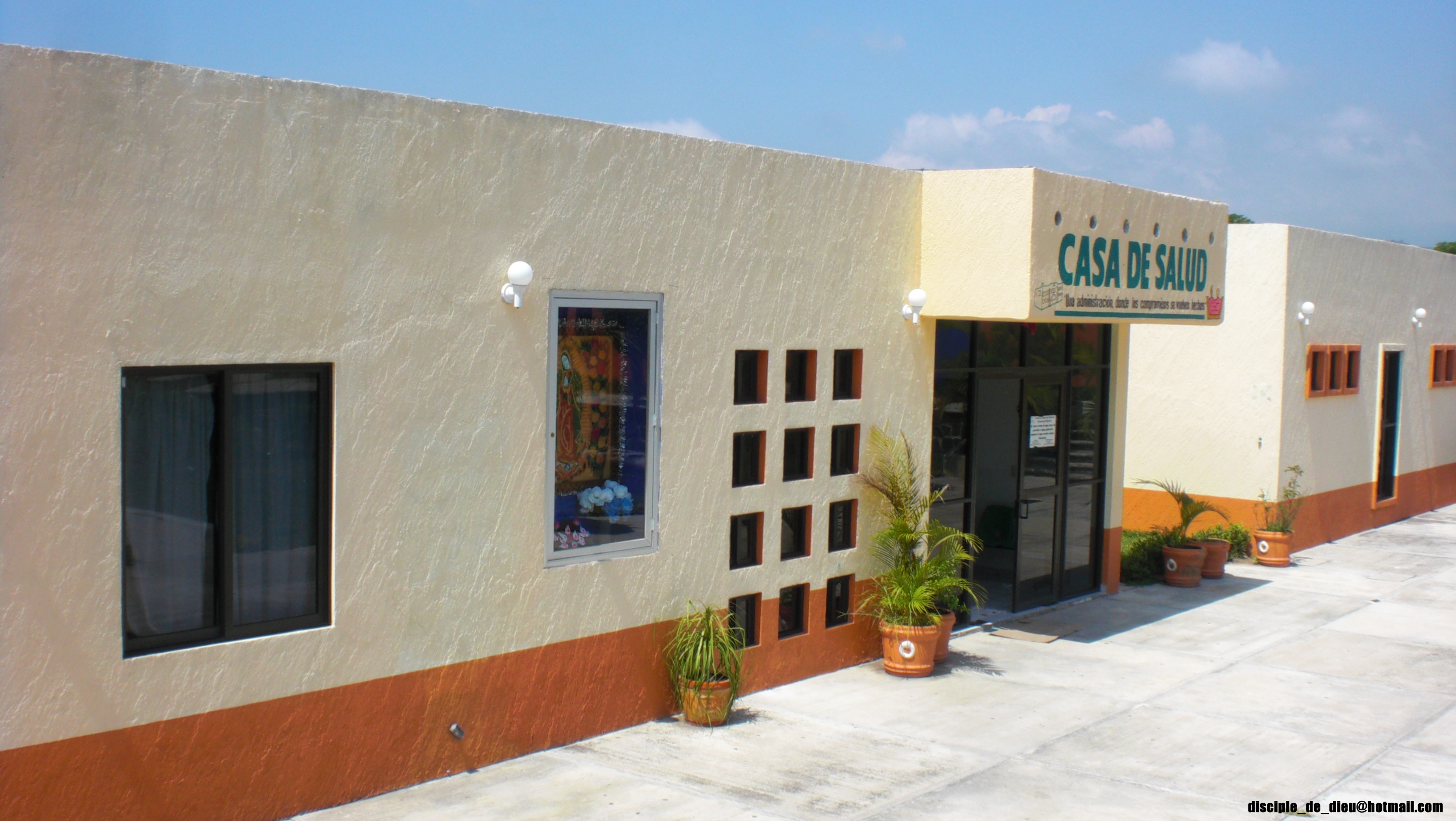 Casa De Salud